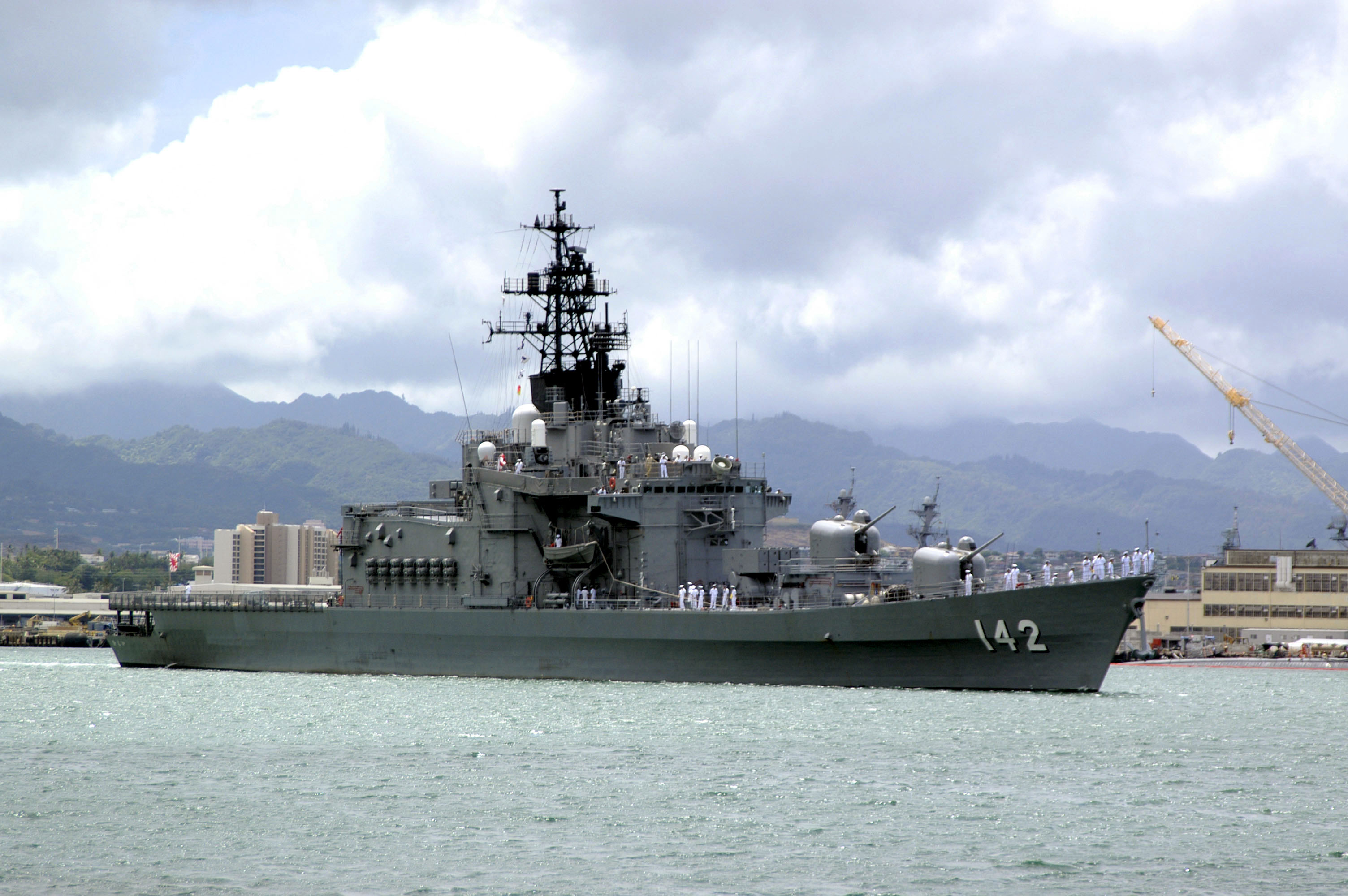 Pearl Harbor (July 5, 2006) - The JDS Hiei (DDH 142) from the Japanese Maritime Self Defense Force departs Pearl Harbor in support of Rim of the Pacific (RIMPAC) 2006 exercises. Eight nations are participating in RIMPAC, the world’s largest biennial maritime exercise. Conducted in the waters off Hawaii, RIMPAC brings together military forces from Australia, Canada, Chile, Peru, Japan, the Republic of Korea, the United Kingdom and the United States.